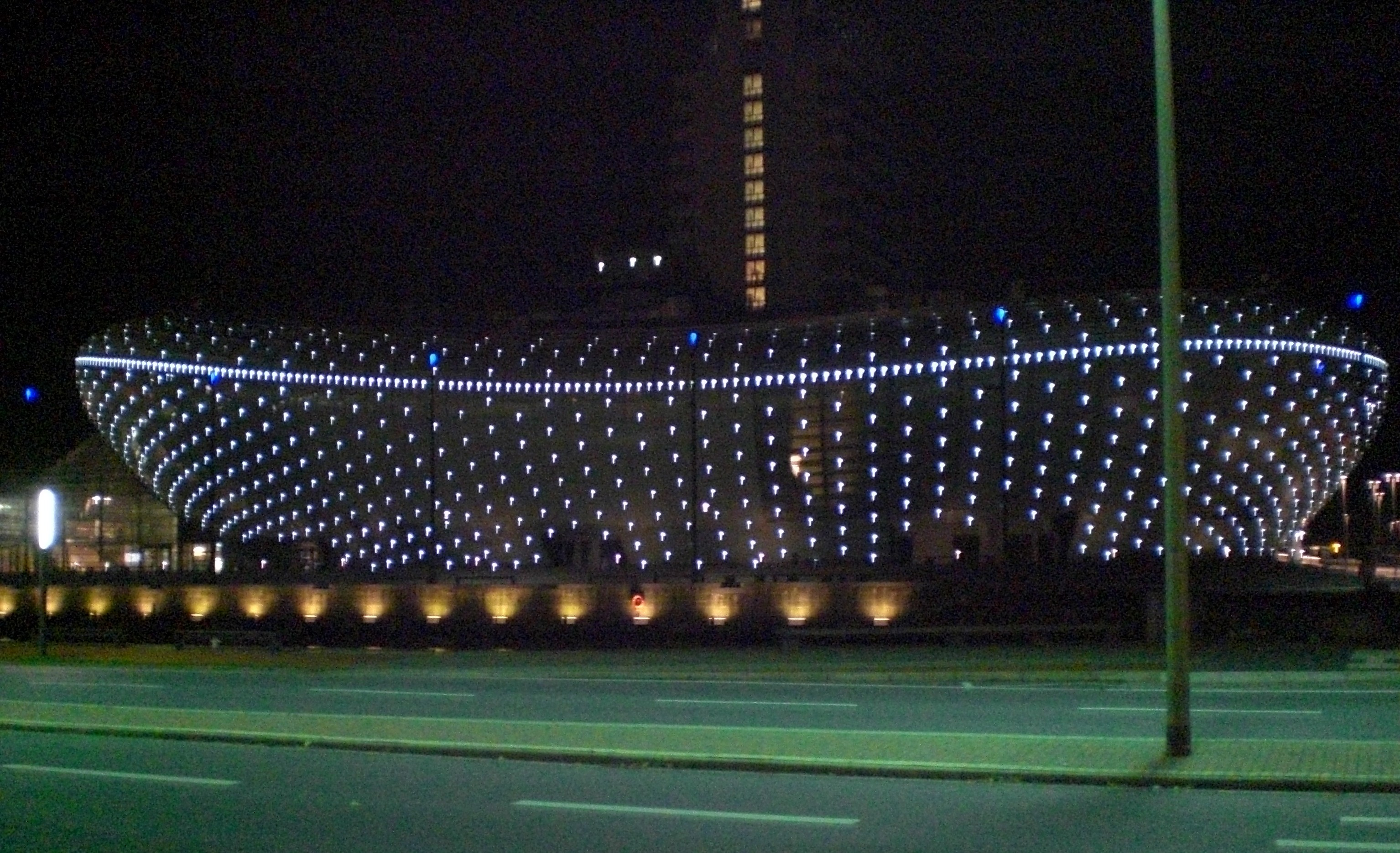 Klimahaus Bremerhaven, Germany at night